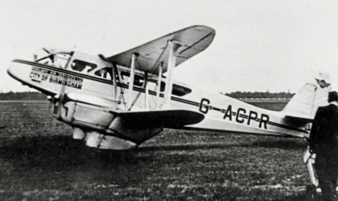 DH.89 Dragon Rapide G-ACPR of Railway Air Services named "City of Birmingham" at Manchester (Ringway) Airport